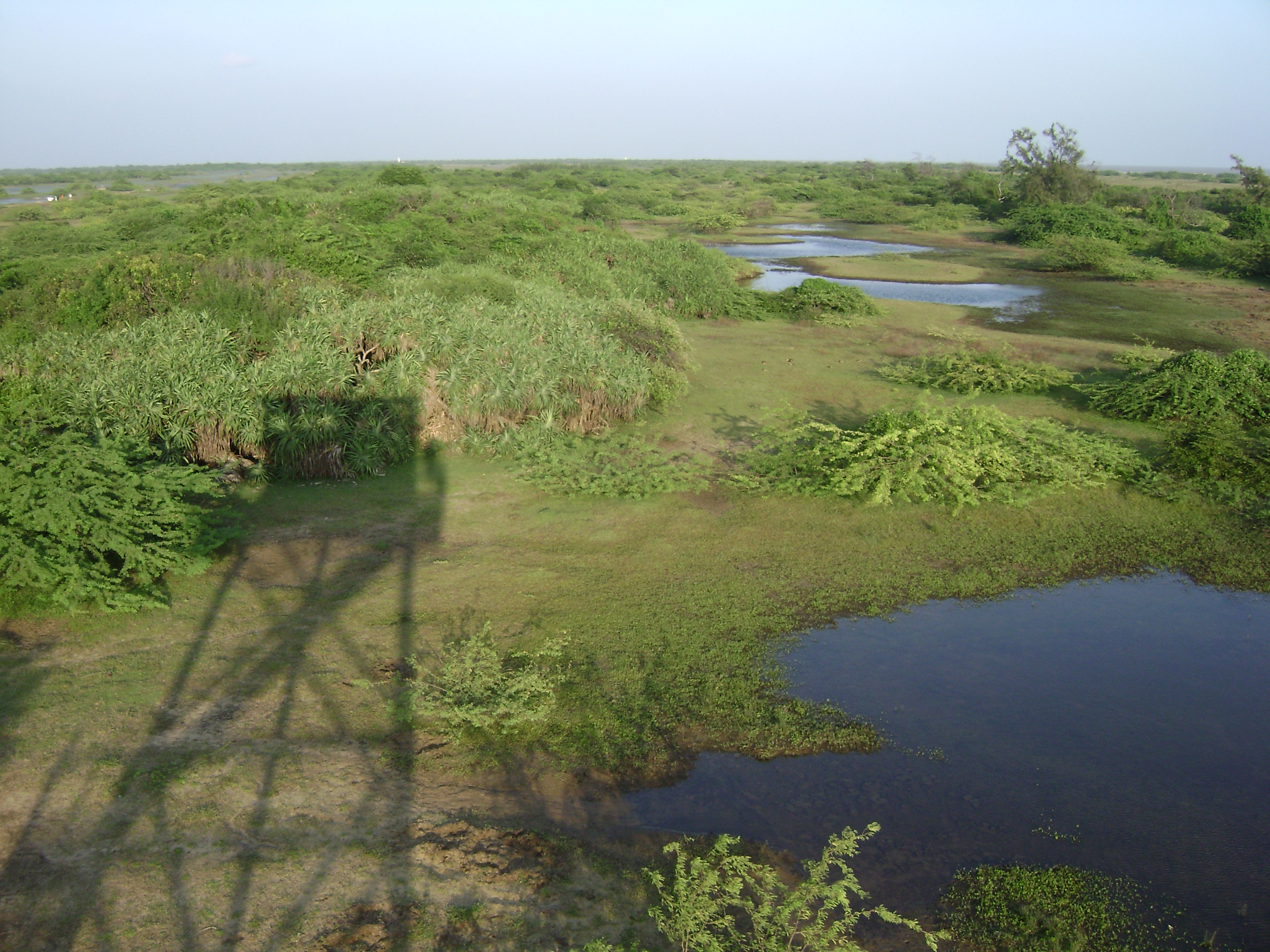 Point Calimere Wildlife and Bird Sanctuary, Looking east from observation tower in the center of the sanctuary